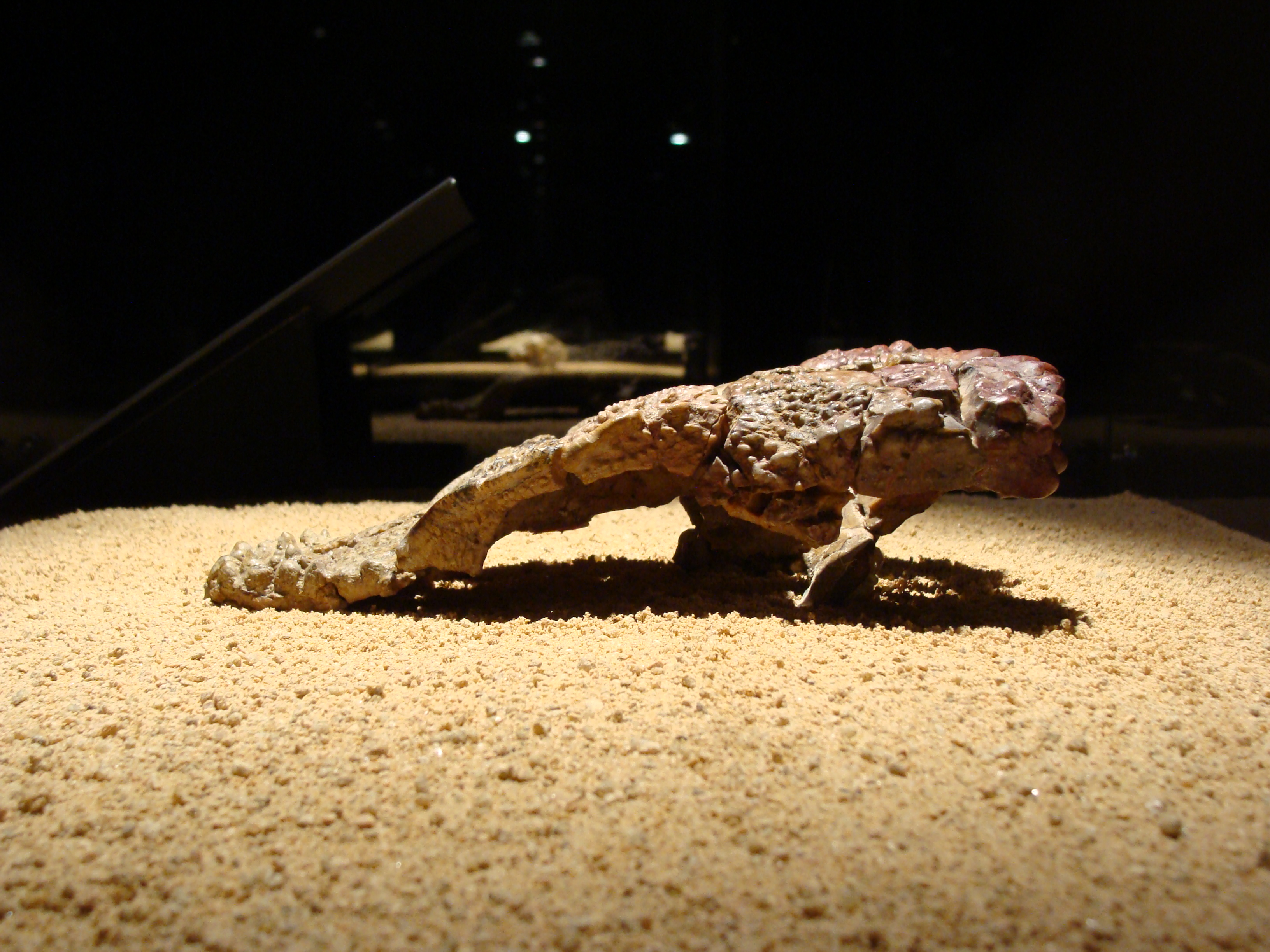 Goyocephale lattimorei in the exhibition "Dinosaures. Tresors del desert de Gobi" ("Dinosaurs. Treasures of Gobi Desert") in CosmoCaixa, Barcelona.